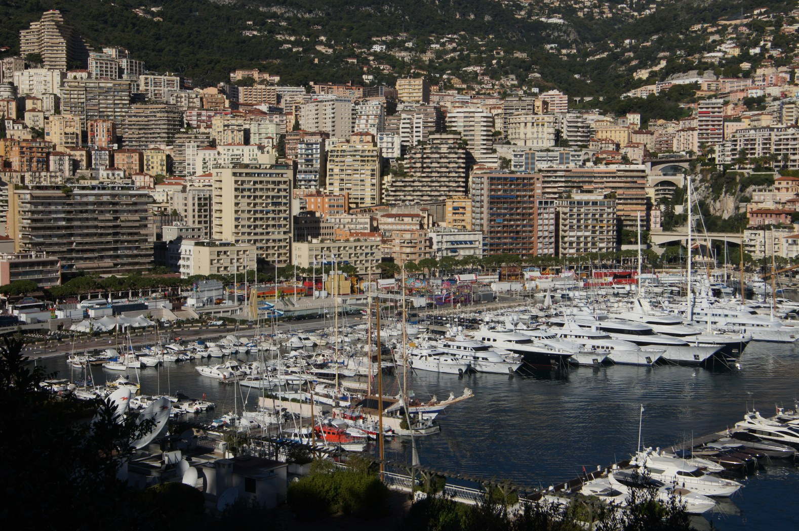 View of Monaco marina